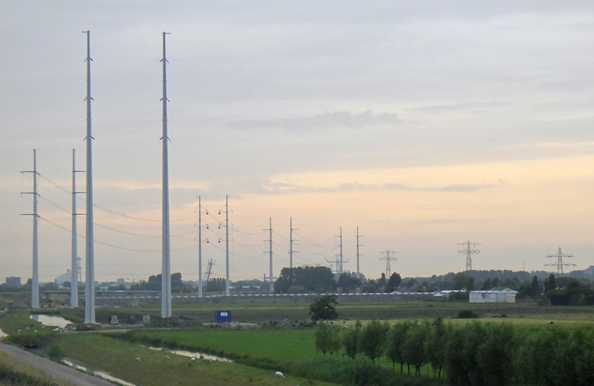 Randstad 380 kV Zuidring: 'New' Wintrack type of transmission tower under construction near Delft, Netherlands.